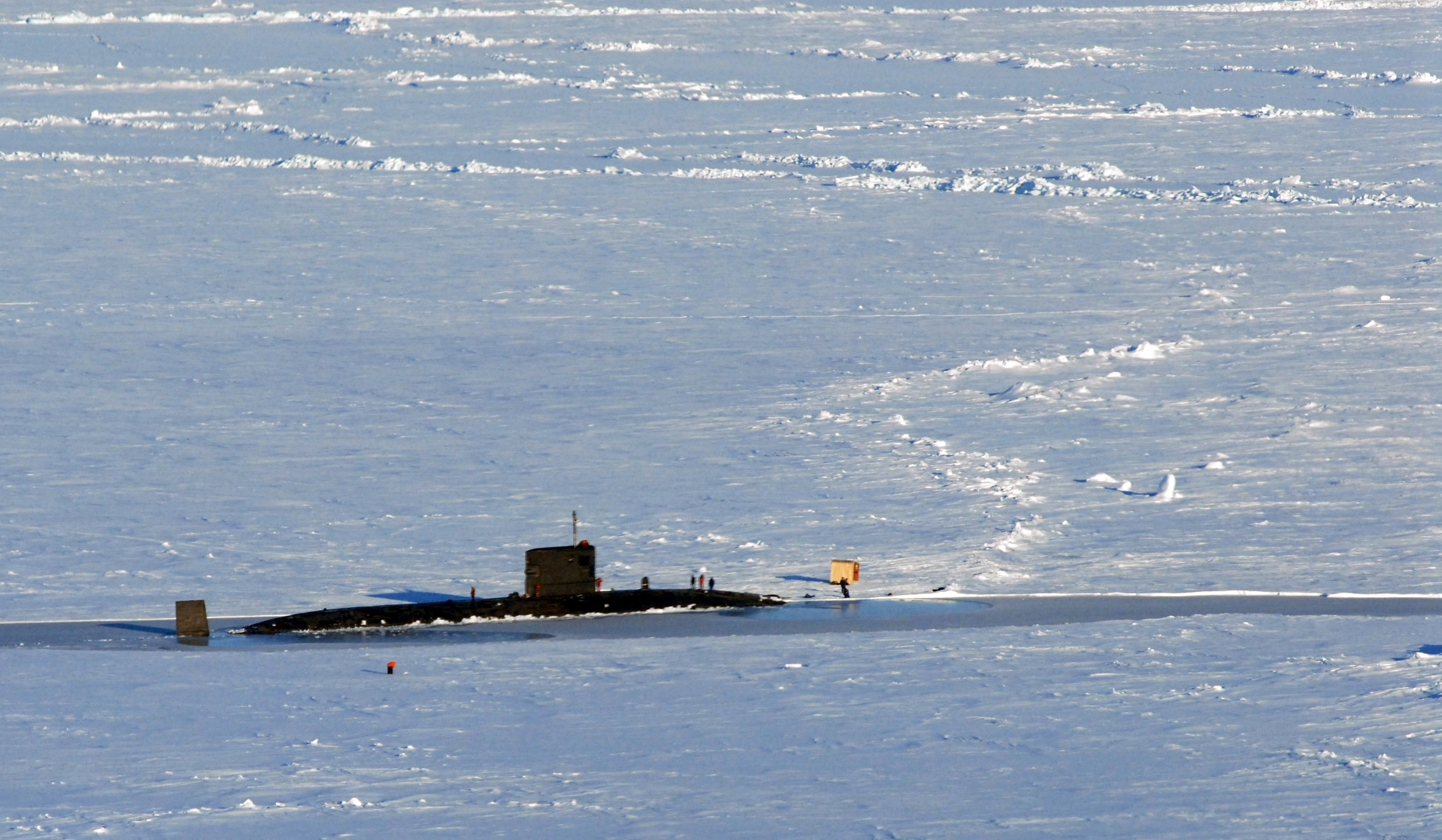 PRUDHOE BAY-DEADHORSE, Alaska - Royal Navy submarine HMS Tireless shown in the arctic ice. Tireless is taking part in ICEX-07 with the Los Angeles-class fast attack submarine USS Alexandria and the Applied Physics Laboratory Ice Station (APLIS).